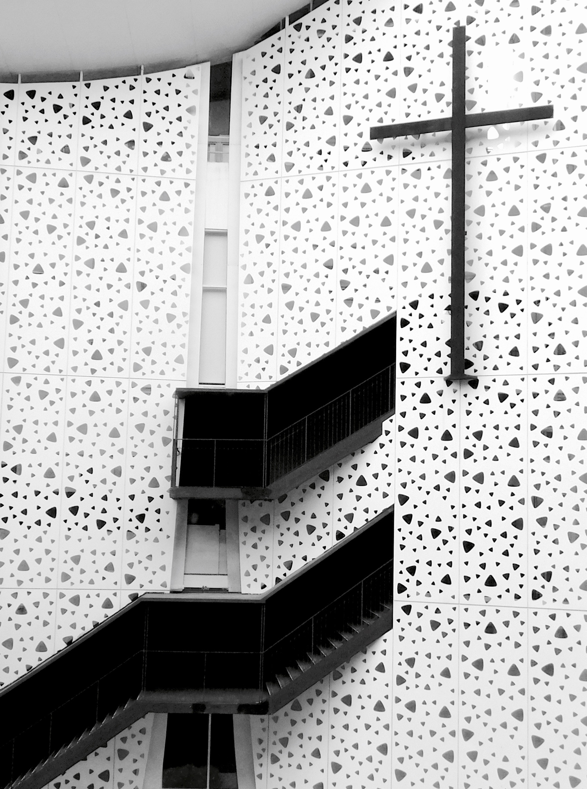 The facade of Singapore Life Church comprises three sections of perforated panels which are “sewn” together by black external staircases that culminate in a large Cross.